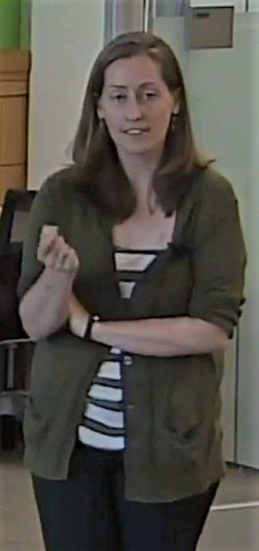 Computational Imaging with Nonlinear Inverse Problems BIDS Data Science Lecture Series | May 1, 2015 | 1:00-2:30 p.m. | 190 Doe Library, UC Berkeley Speaker: Laura Waller, Assistant Professor, EECS, Berkeley Sponsors: Berkeley Institute for Data Science, Data, Society and Inference Seminar Computational imaging involves the joint design of optical systems and post-processing algorithms such that computation replaces optical elements, enabling simple experimental setups. This talk will describe new optical microscopes that employ simple experimental architectures and efficient nonlinear inverse algorithms to achieve high-resolution 3D and phase images. By leveraging recent advances in computational illumination, we achieve brightfield, darkfield, and phase contrast images simultaneously, with extension to 3D and gigapixel phase imaging. We discuss unique challenges for large-scale real-time imaging of biological samples in vitro and in vivo.